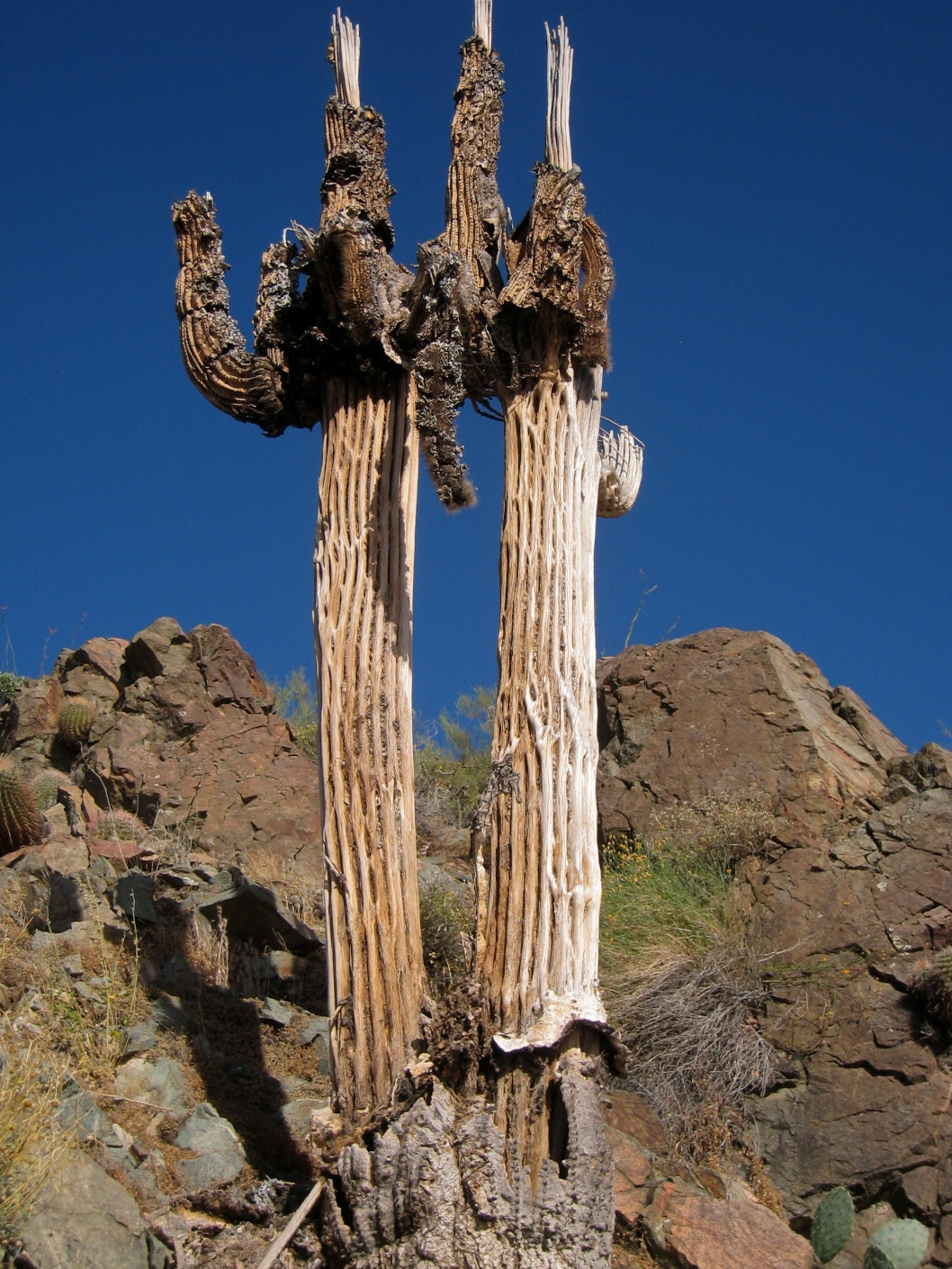 These saguaro cacti stuck together through thick and thin.... Vicinity of Roosevelt Lake, AZ.